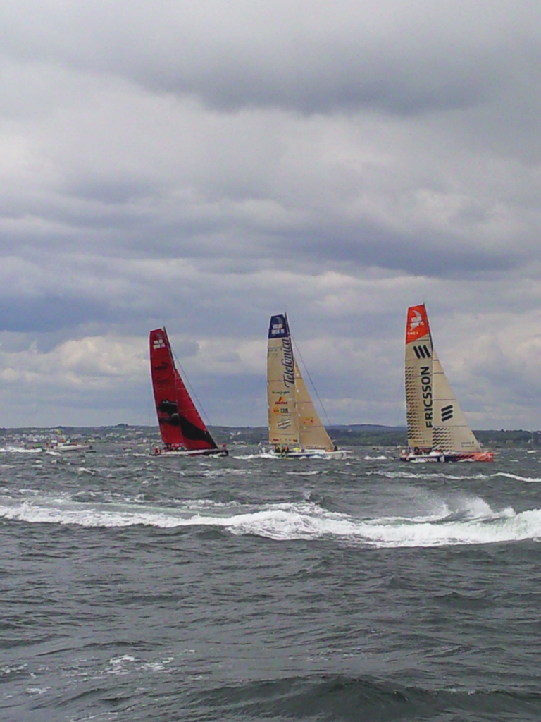 Pumas il Mostro, Telefonica Blue?, and one of the Ericsson boats